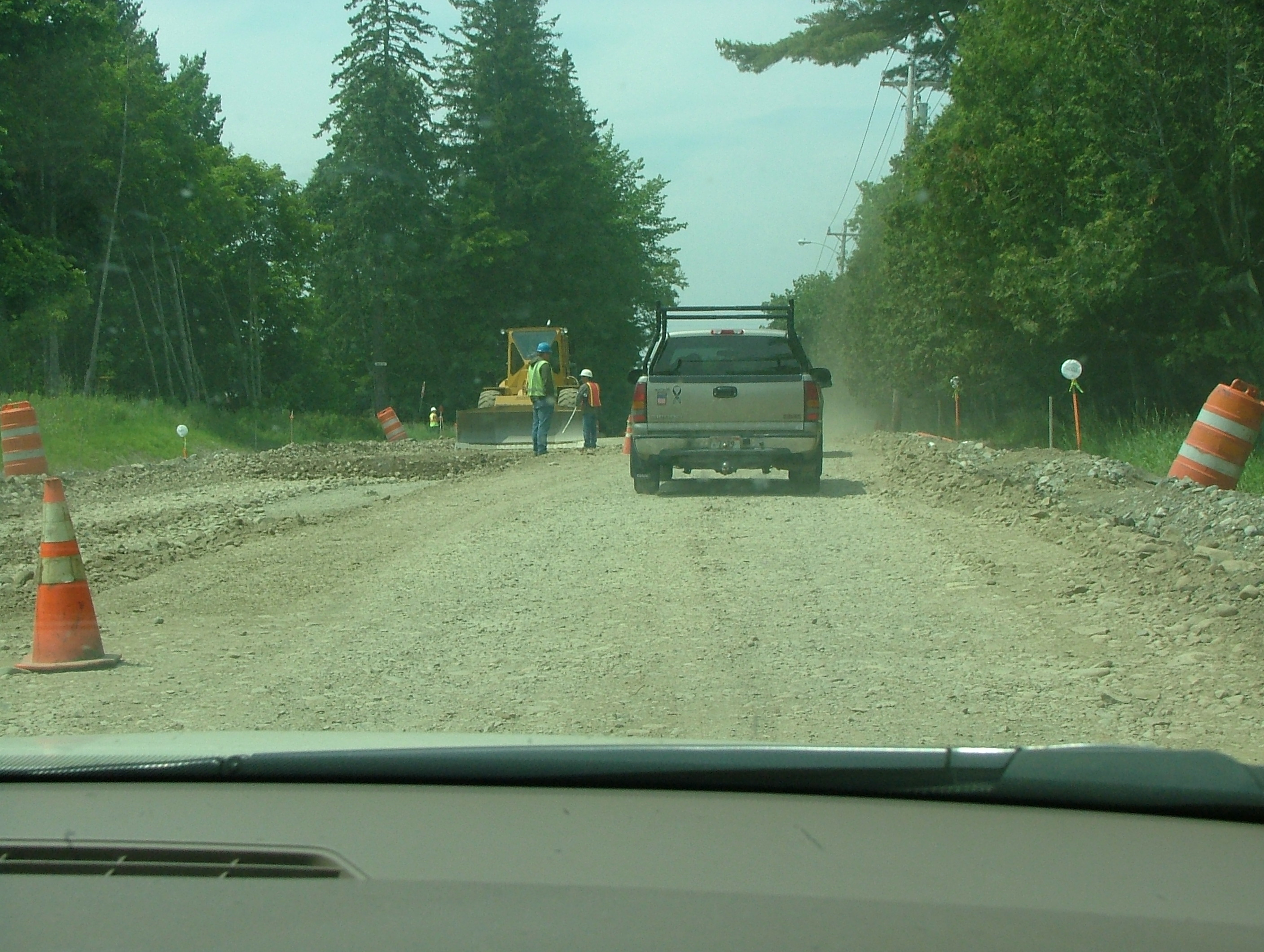 Roadwork on U.S. Route 1, just south of Calais, Maine